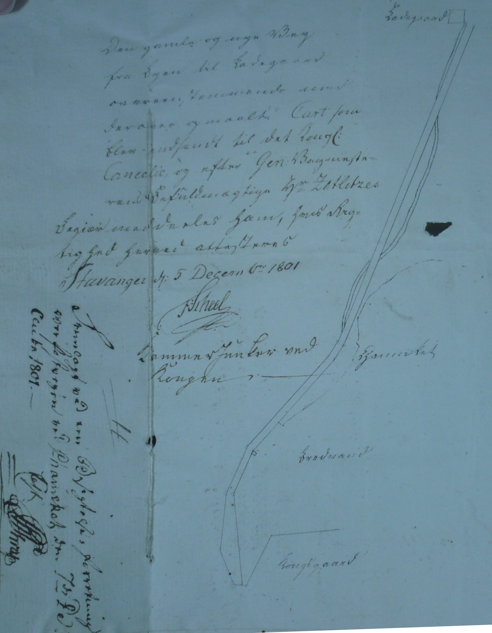 Map of the old ande the Kongsgata in Stavanger from December 5th 1801. Source: The national archive in Oslo, letters to the Ministry in 1803.